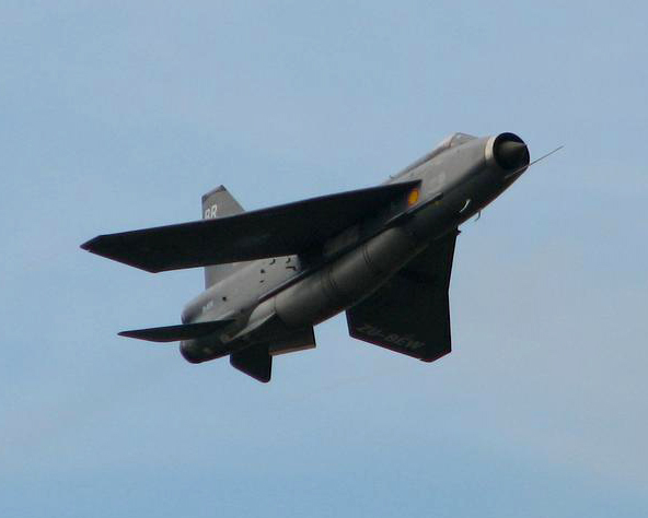 English Electric Lightning at the Ysterplaat Airshow, Cape Town.